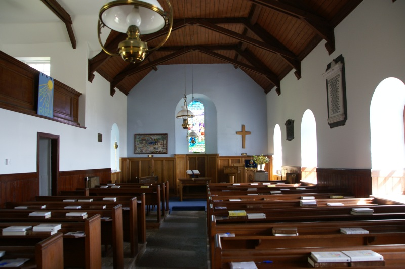 Craighouse Parish Church, Craighouse, Isle of Jura, Scotland. Interior.